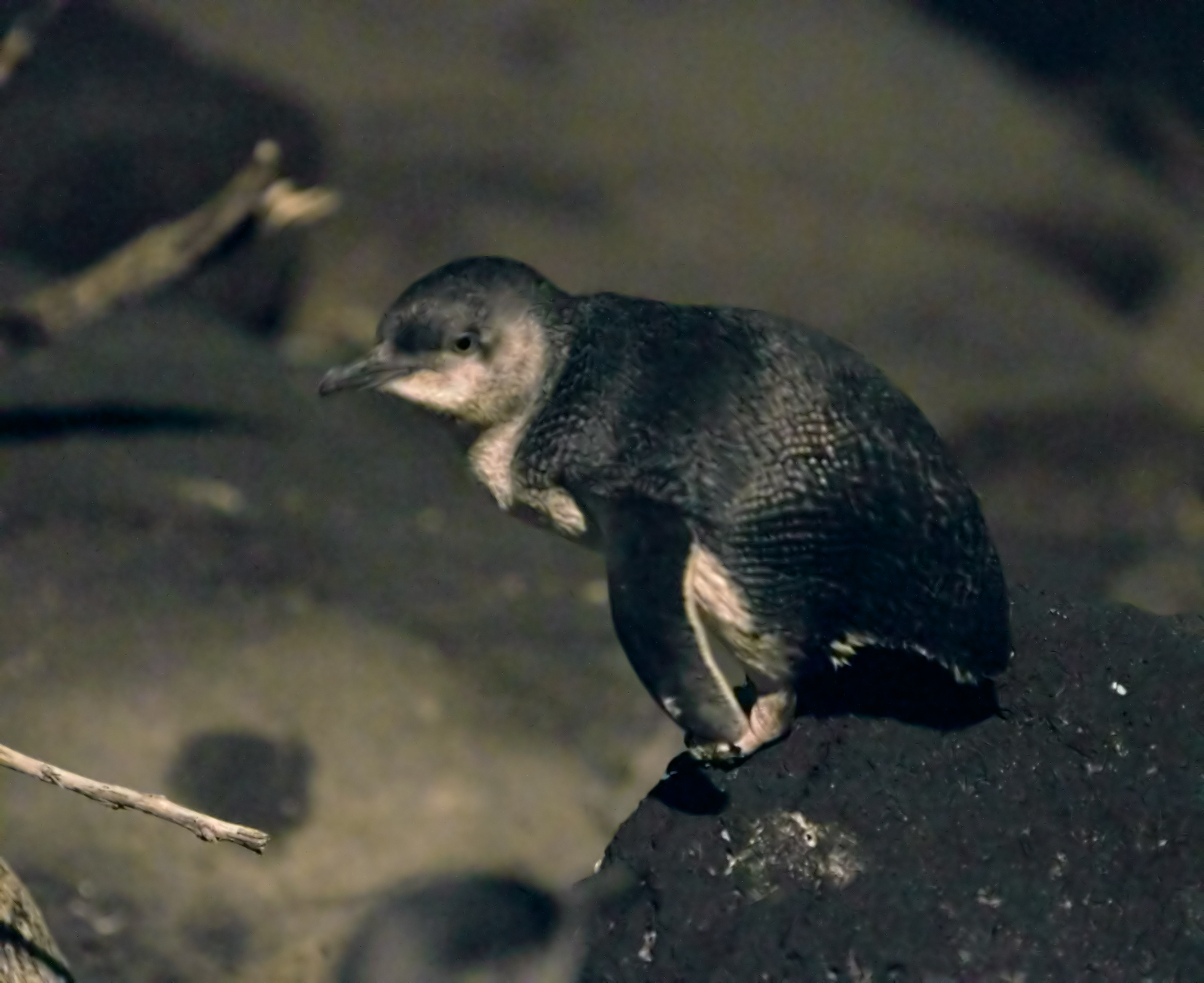 A Little Penguin perched on a rock at the end of the St Kilda Breakwater. The photo was taken at 01:48 on November 21 2009. Lighting was provided by the incandescent lamps along the breakwater.